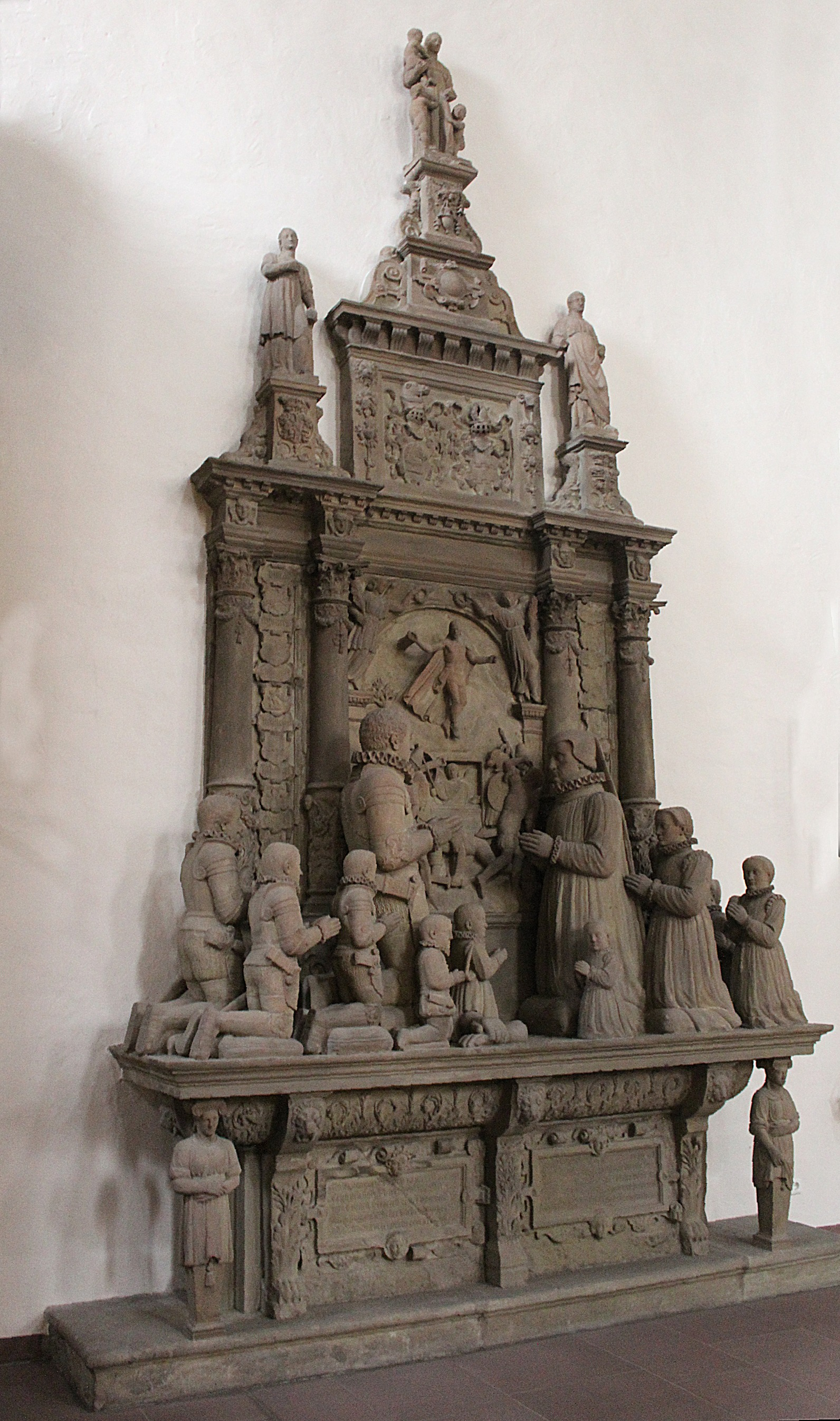 Würzburg, Franciscan church, tomb of Heinrich Zobel von und zu Giebelstadt